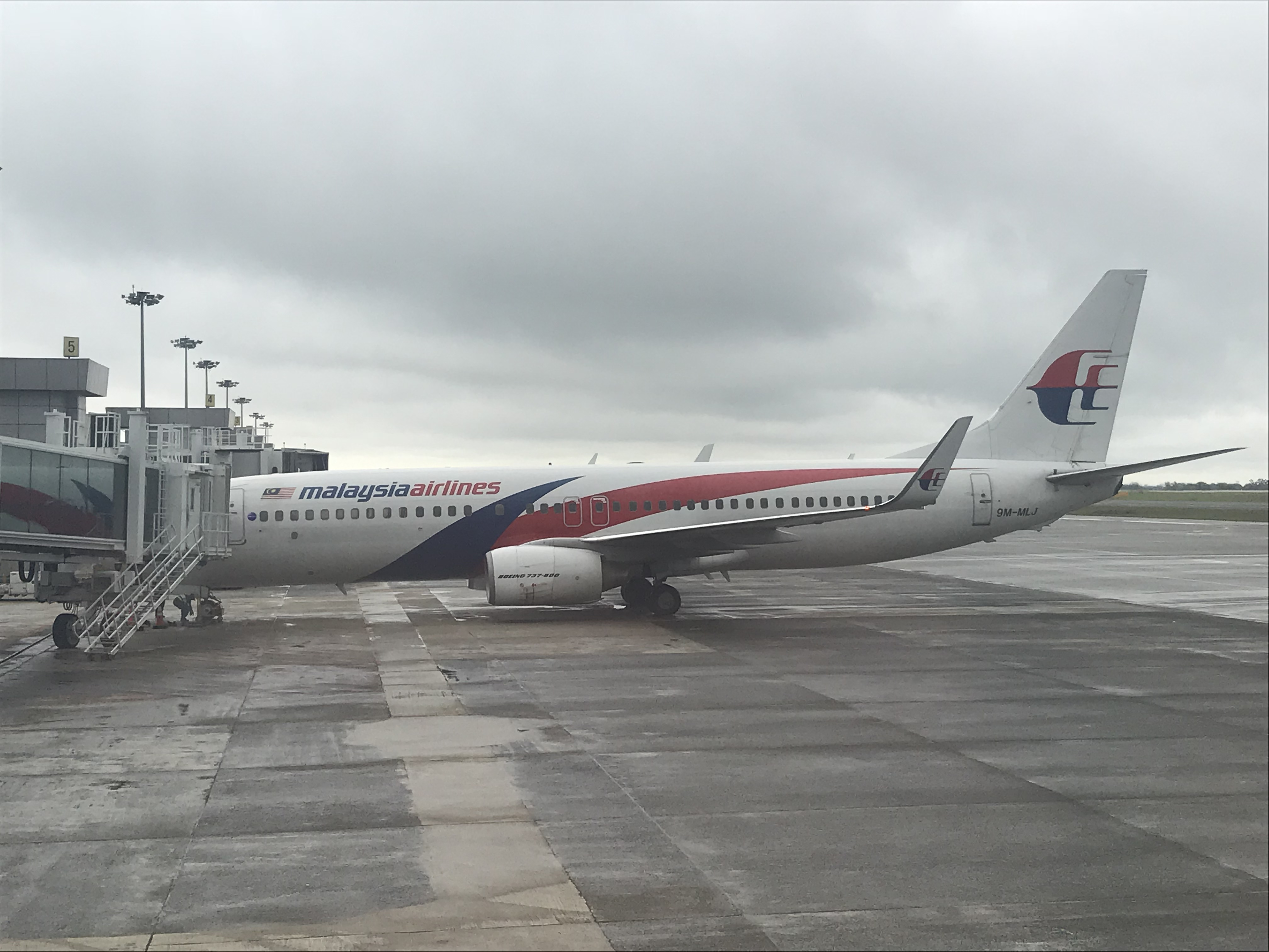 Imej ini diambil dengan IPhone 7 , pada Tarikh 13 April 2019 .